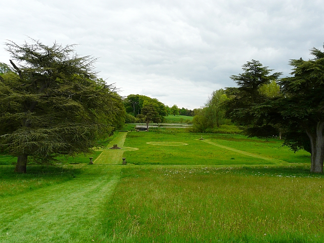 Hutton-in-the-Forest, view downhill from south terrace The owners have fairly recently cleared this Low Garden of rhododendrons, to open up a good view to the lake.